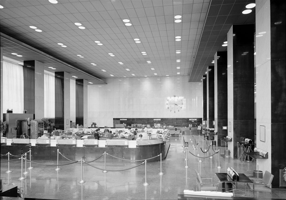 The banking hall of the PSFS Building, looking from the north. Cropped from original.